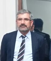 Tahir Elçi, the former President of the Diyarbakır Bars Association